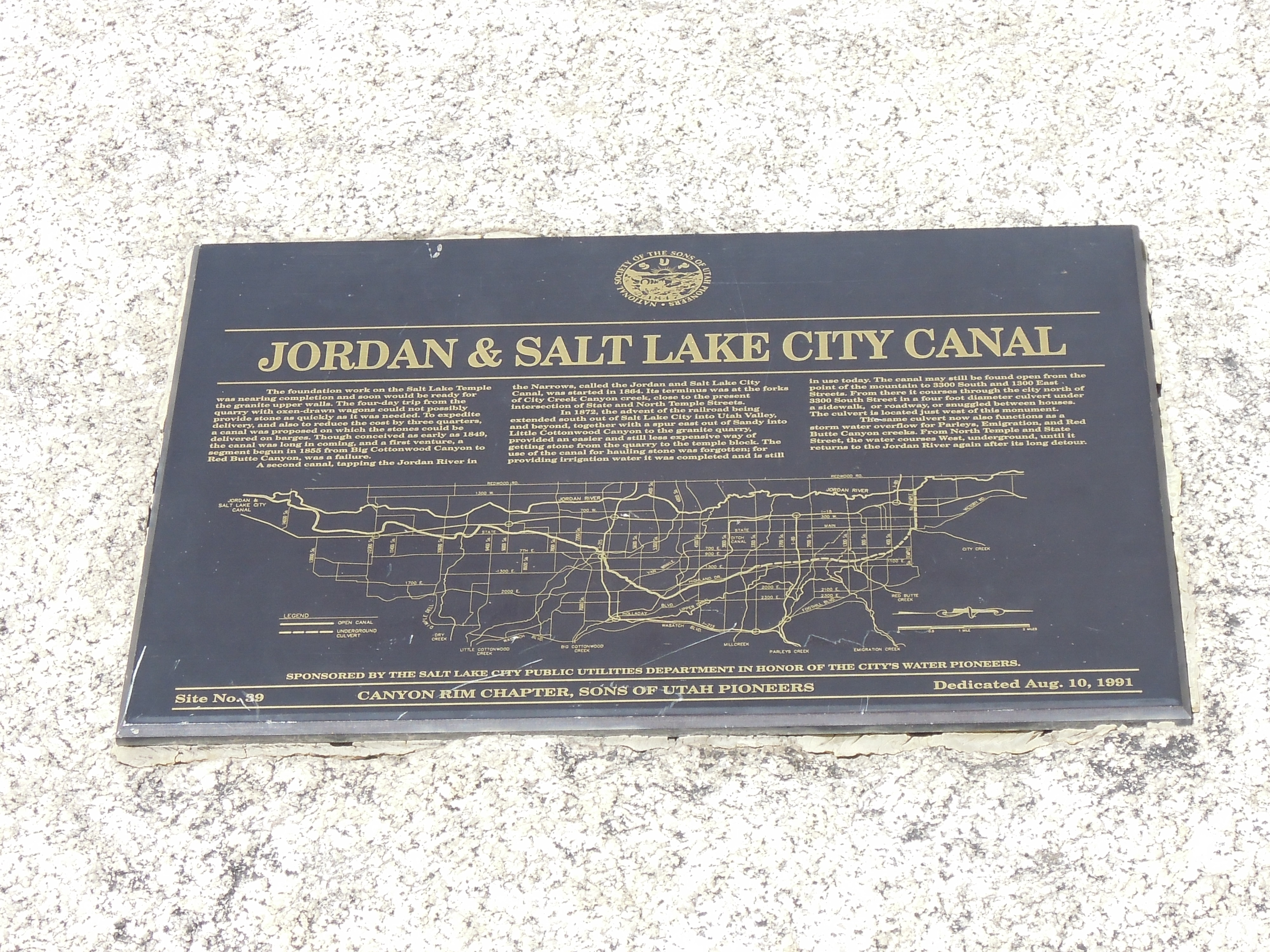 The plaque summarizes the history of the canal, which was originally conceived to transport granite from the quarry to the site of the Salt Lake Temple.